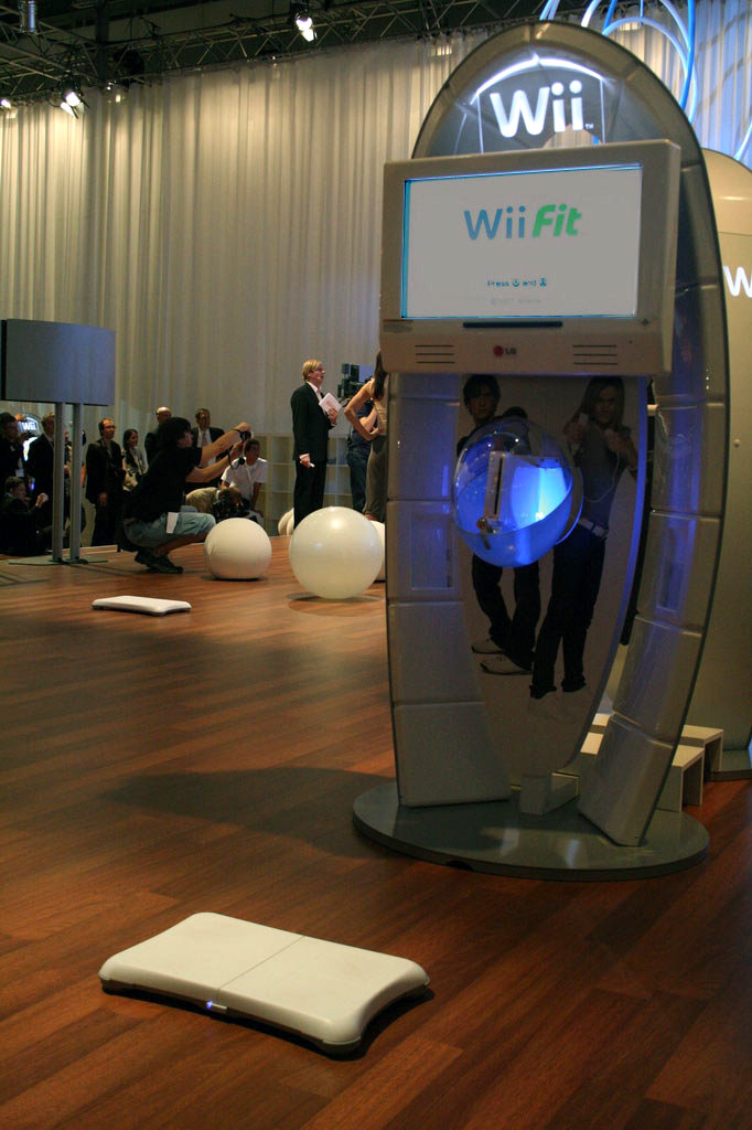 Photo taken in Leipzig, Saxony at a video games convention on the 22nd of August 2007. Taken and released by flickr user wlodi. Link to original image: Photo is of a Wii Fit demonstration booth. In the background are Nintendo reps demonstrating Wii Fit to an audience.